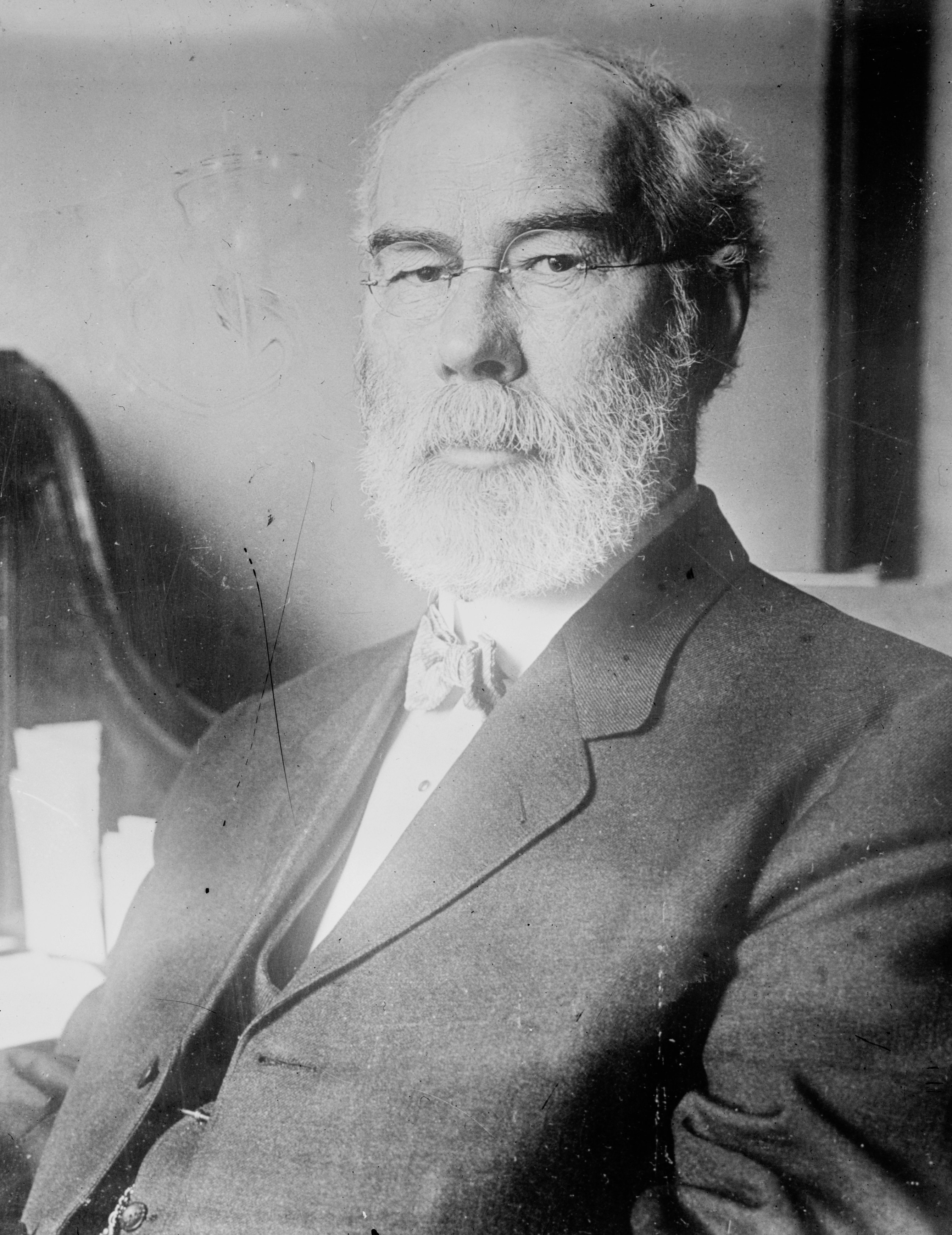 Benjamin F. Trueblood